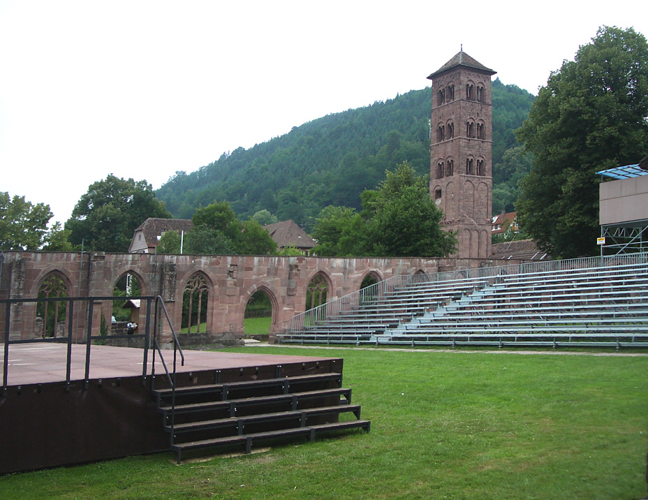 Kloster Hirsau (Calw), Germany: Open-air stage and auditorium during the "Klosterfestspiele" festival